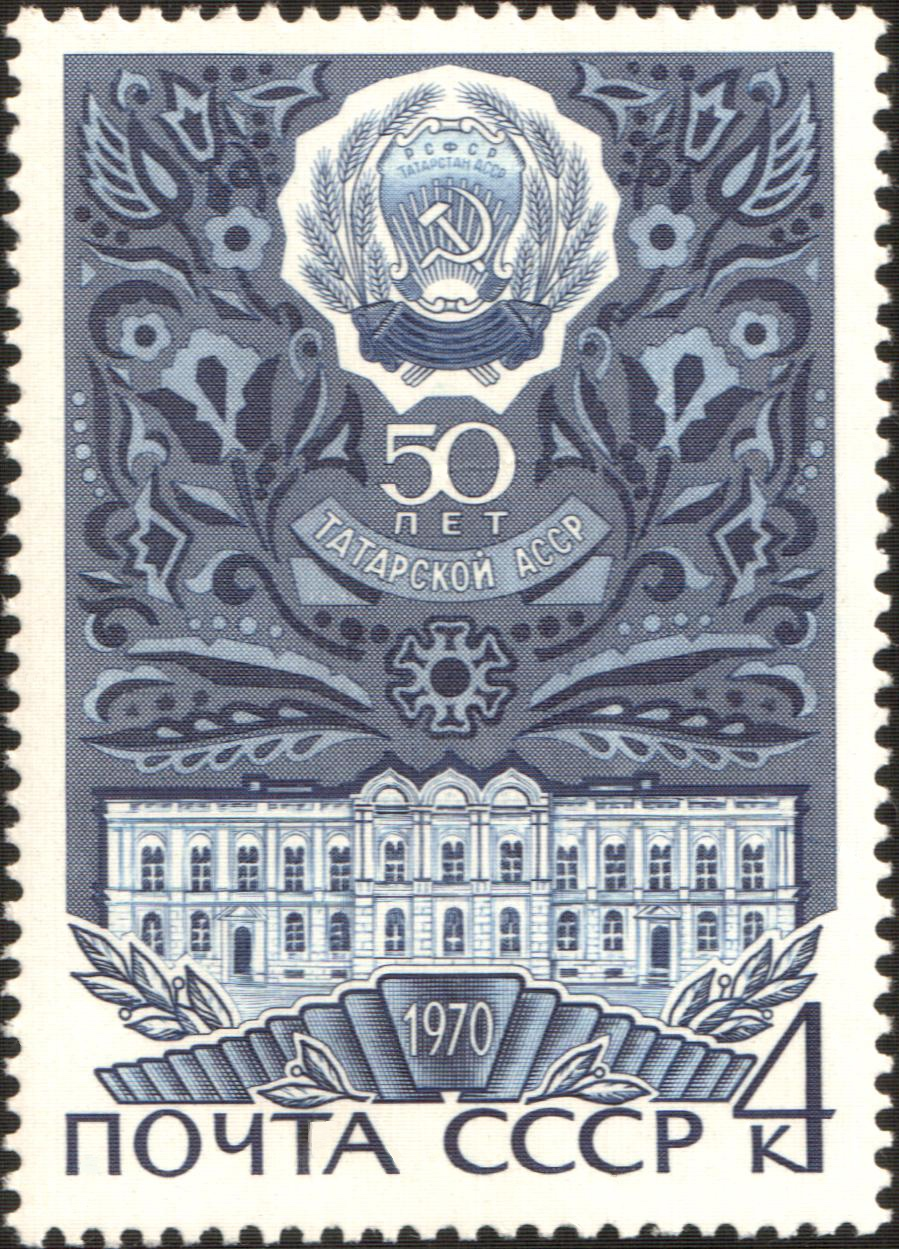 USSR stamp: Tatar Autonomous Soviet Socialist Republic (Established on 1920.05.27). Series: 50th Anniversary of the Autonomous Republics of the Soviet Union